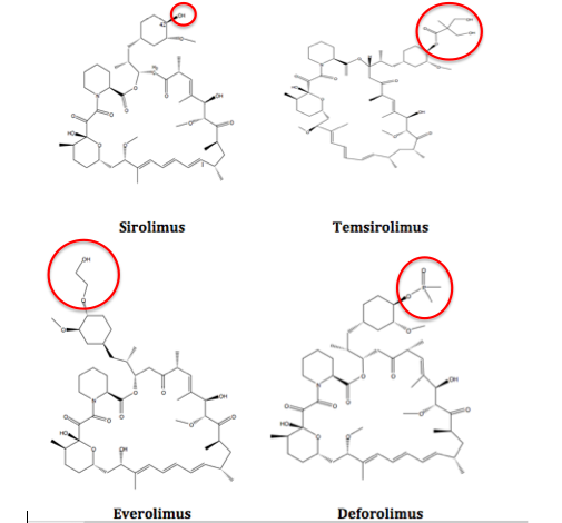 rapalogs structures